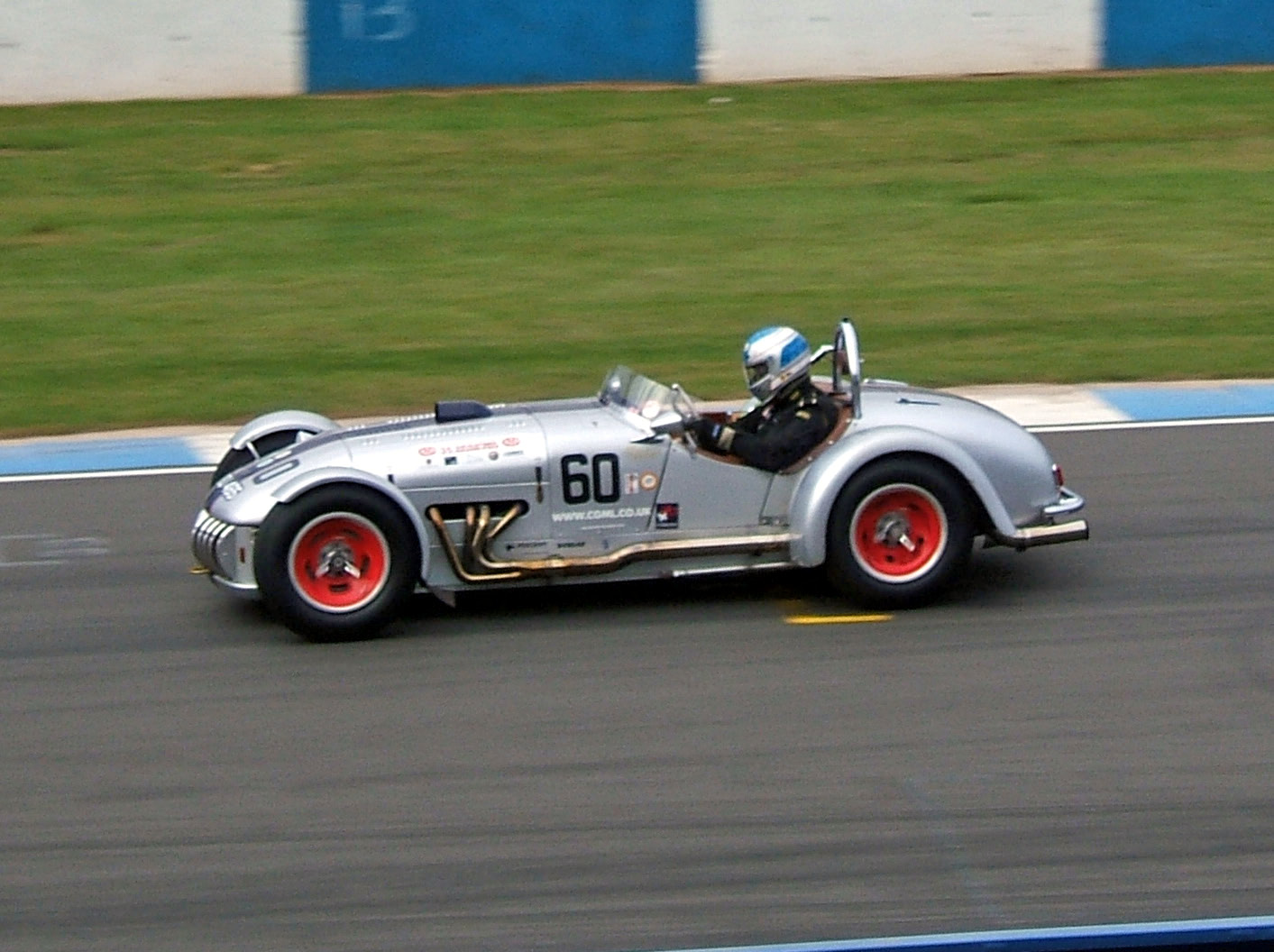 Christopher Keen guns the throttle in his Kurtis 500S on the Wheatcroft Straight during the VSCC SeeRed race meeting, Donington Park, September 2007.